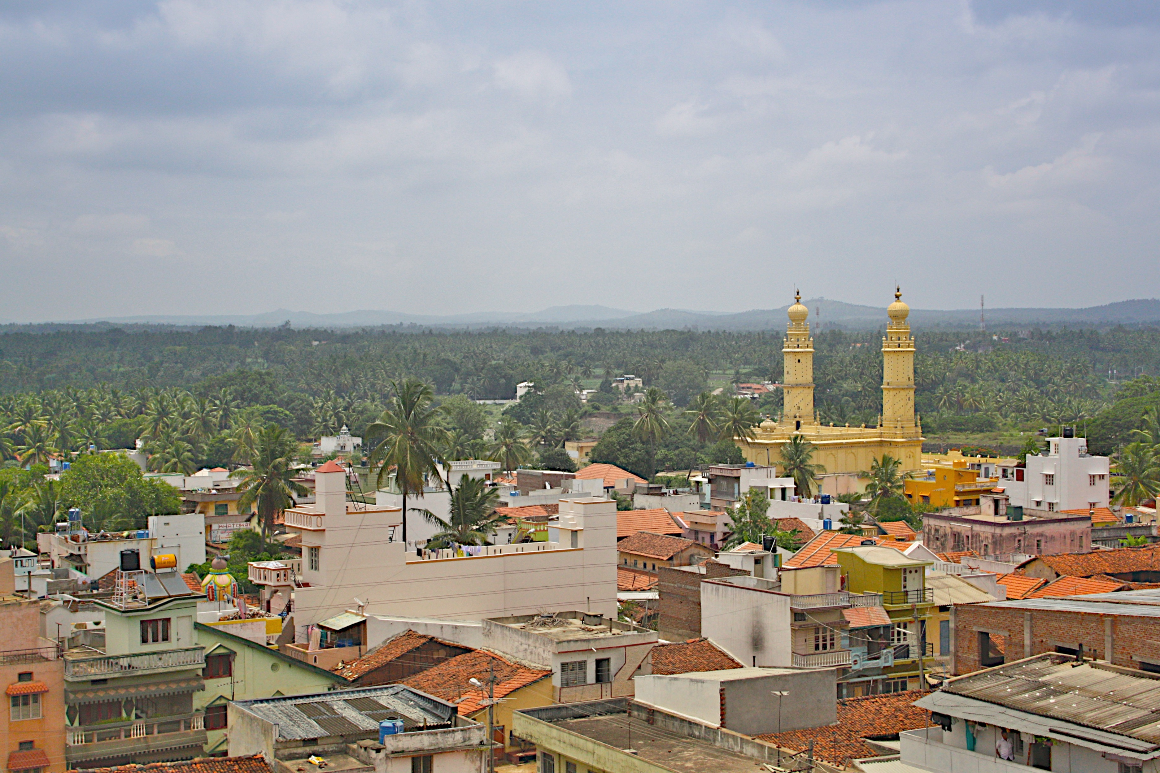 Srirangapatna Township, Karnataka.